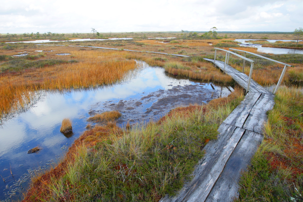 Marimetsa, Lääne County, Estonia